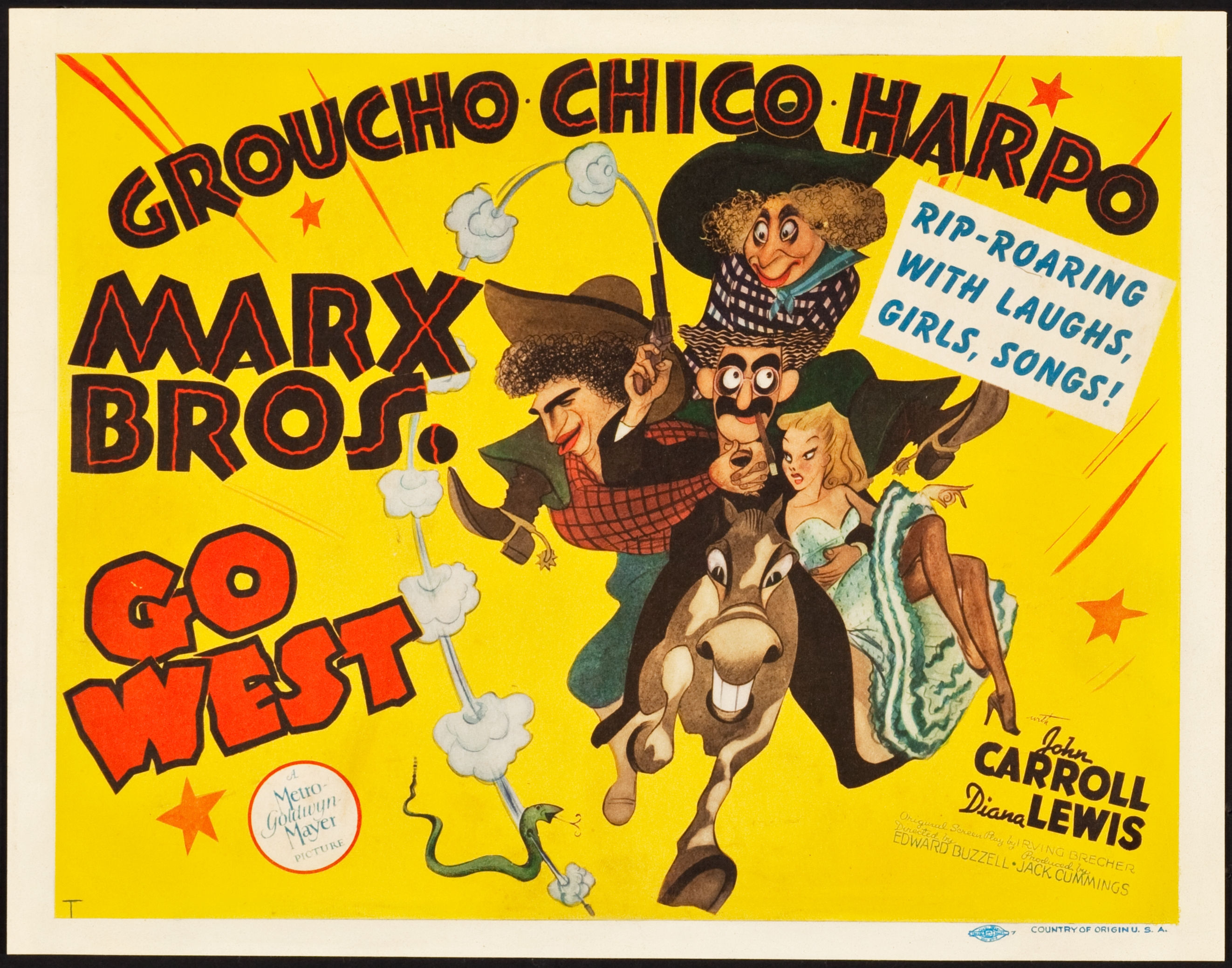 Poster for the 1940 film Go West. The item has no copyright markings on it as can be seen in the links above. At bottom right is a logo indicating the poster was printed by a union print shop and Country of Origin USA.